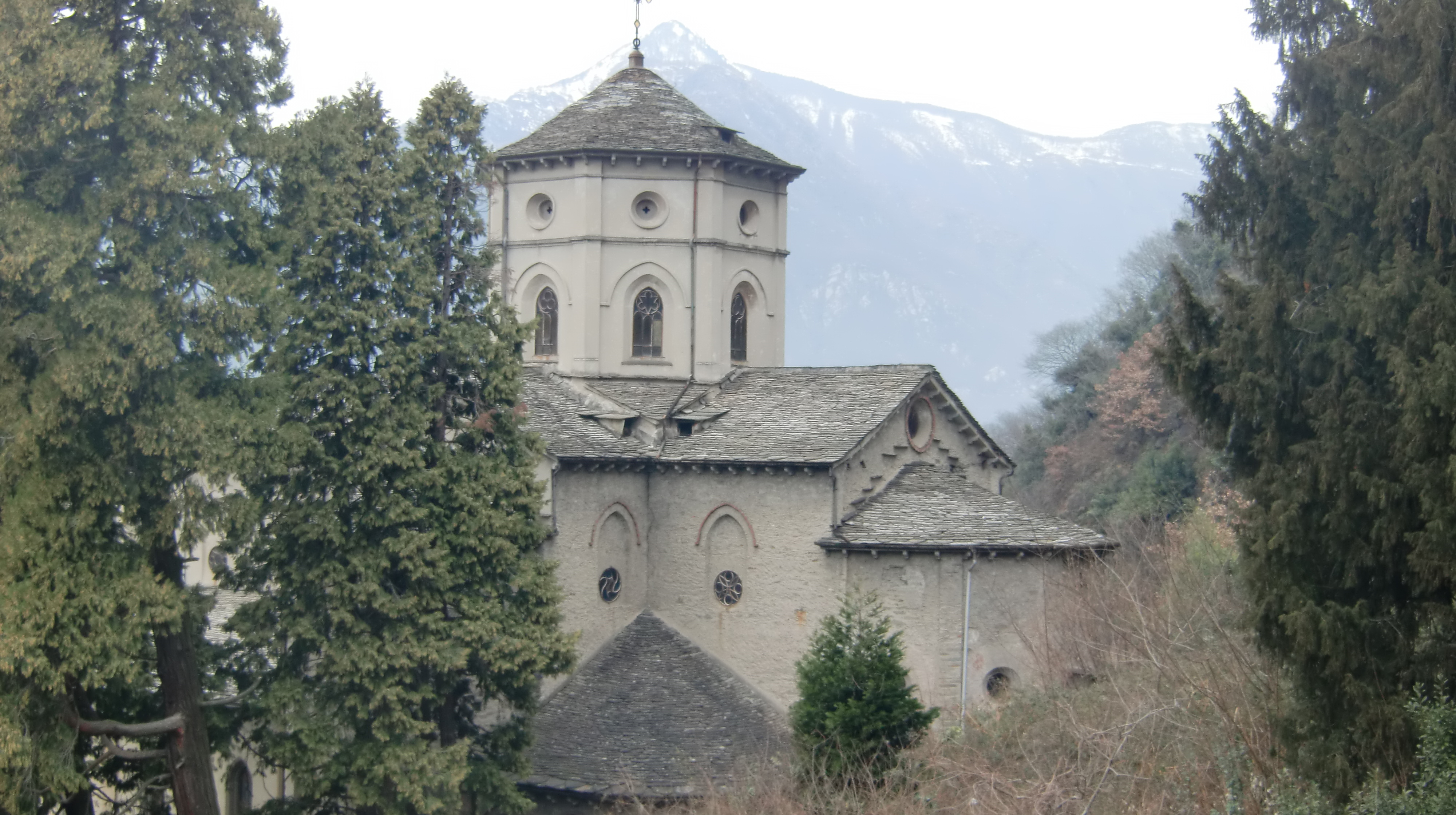 Vogogna, parish church (XIX century)